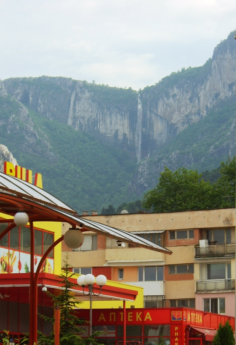 Waterfall in Vratsa, Bulgaria